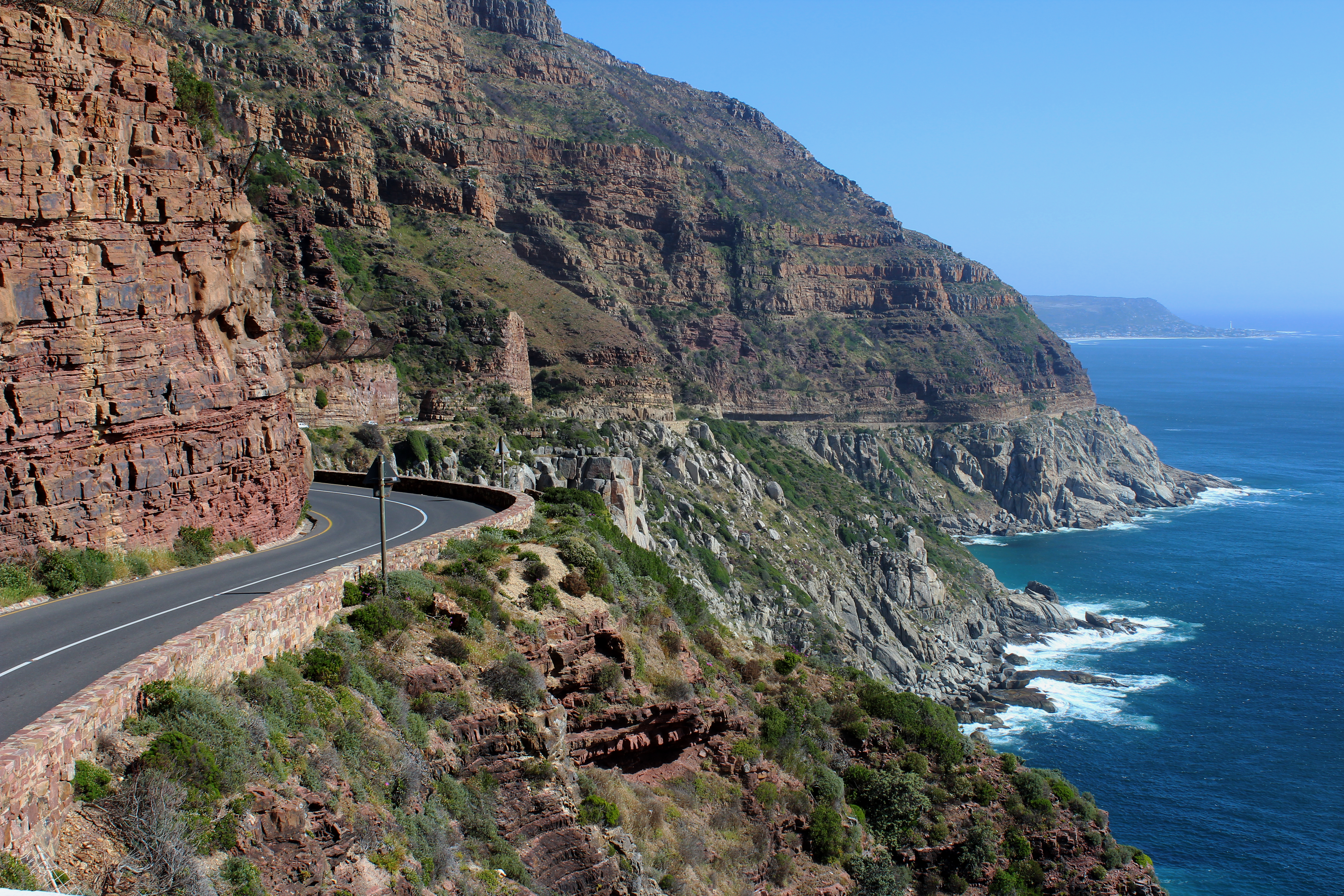 Chapman's Peak Drive, a scenic road between Cape Town and Hout Bay carved out of a cliff-face between Chapman's Peak on the Cape Peninsular and the Atlantic Ocean.